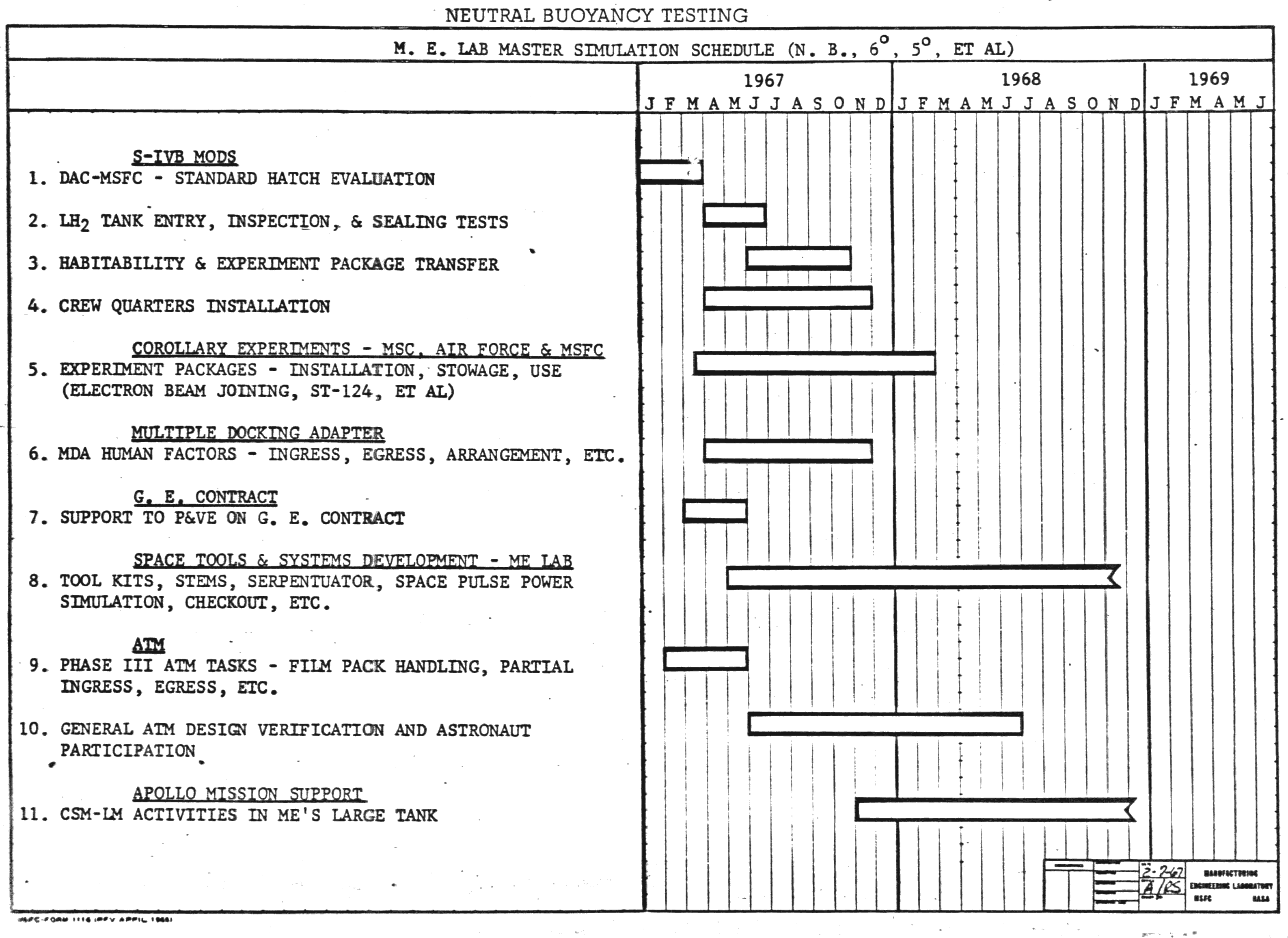 This Gantt Chart shows activities planned to be undertaken at the Neutral Buoyancy Simulator at Marshall Space Flight Center.